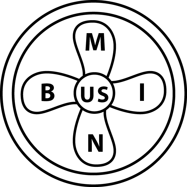 The official seal of the United States Bureau of Marine Inspection and Navigation.